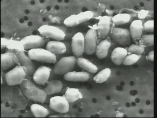 GFAJ-1 bacteria seen by electron microscope.